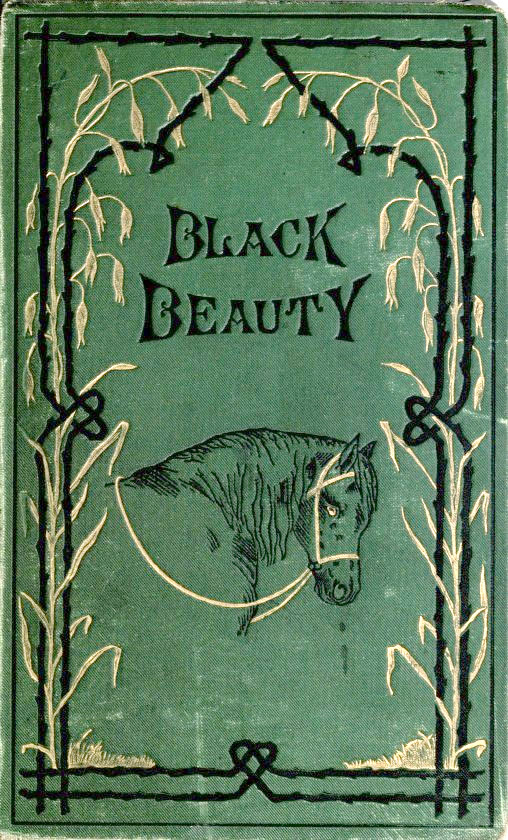 Cover of the novel Black Beauty, first edition 1877, published by London: Jarrold and Sons